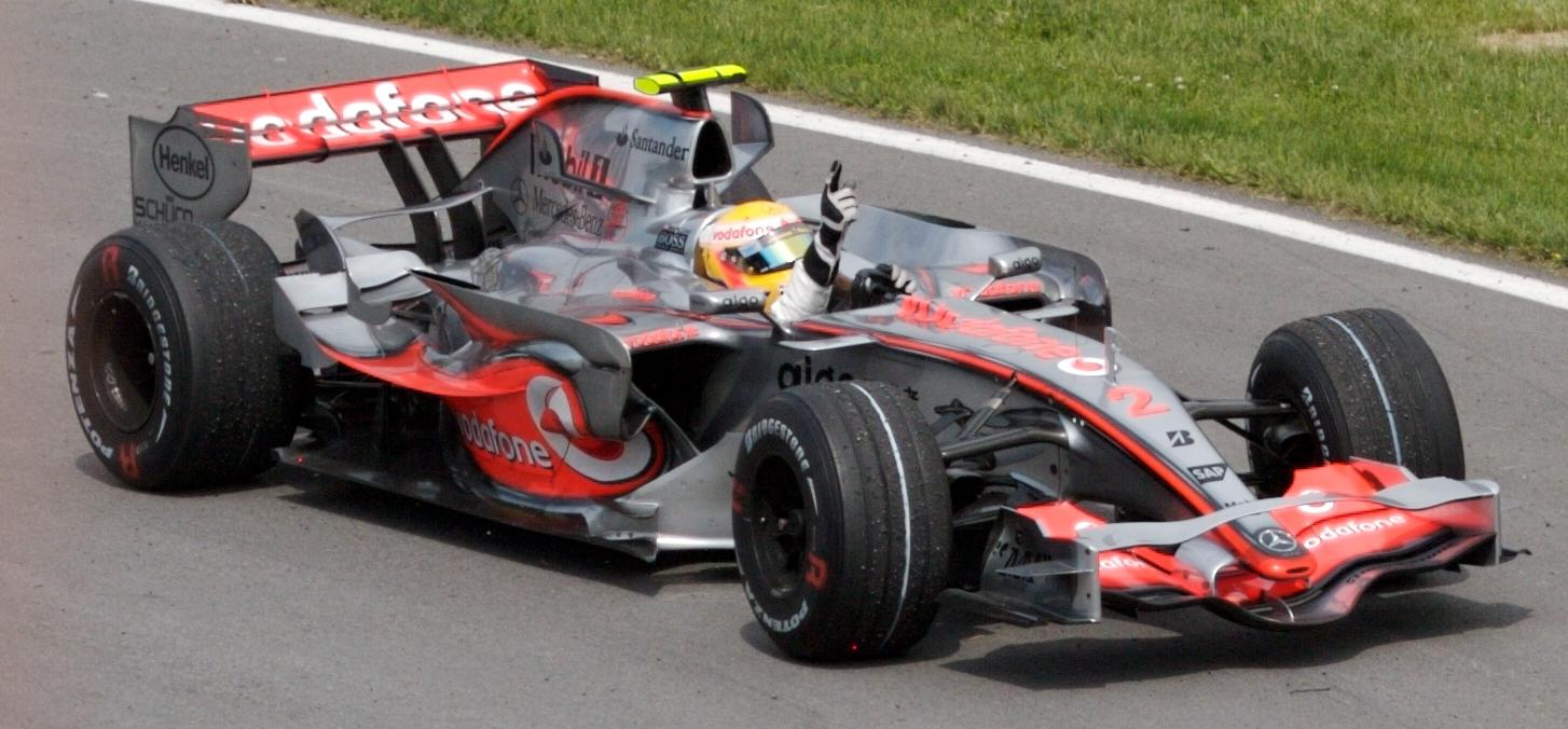 Lewis Hamilton celebrates victory at the 2007 Canadian Grand Prix.